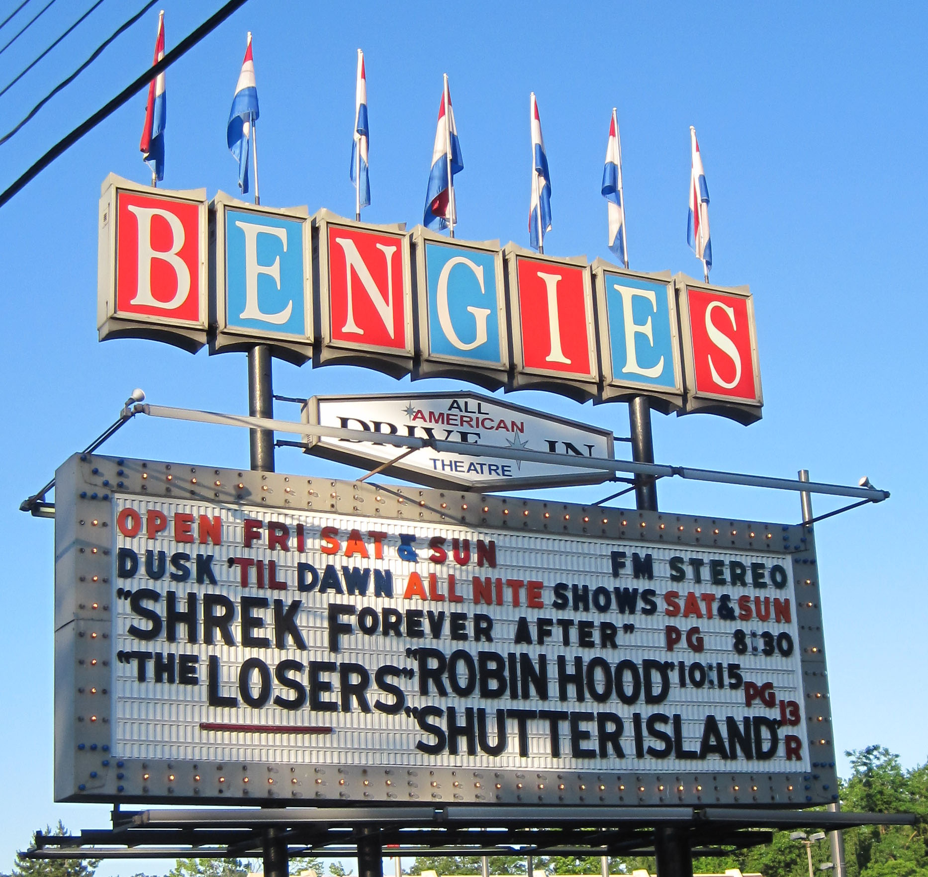 Image of the Bengie's billboard